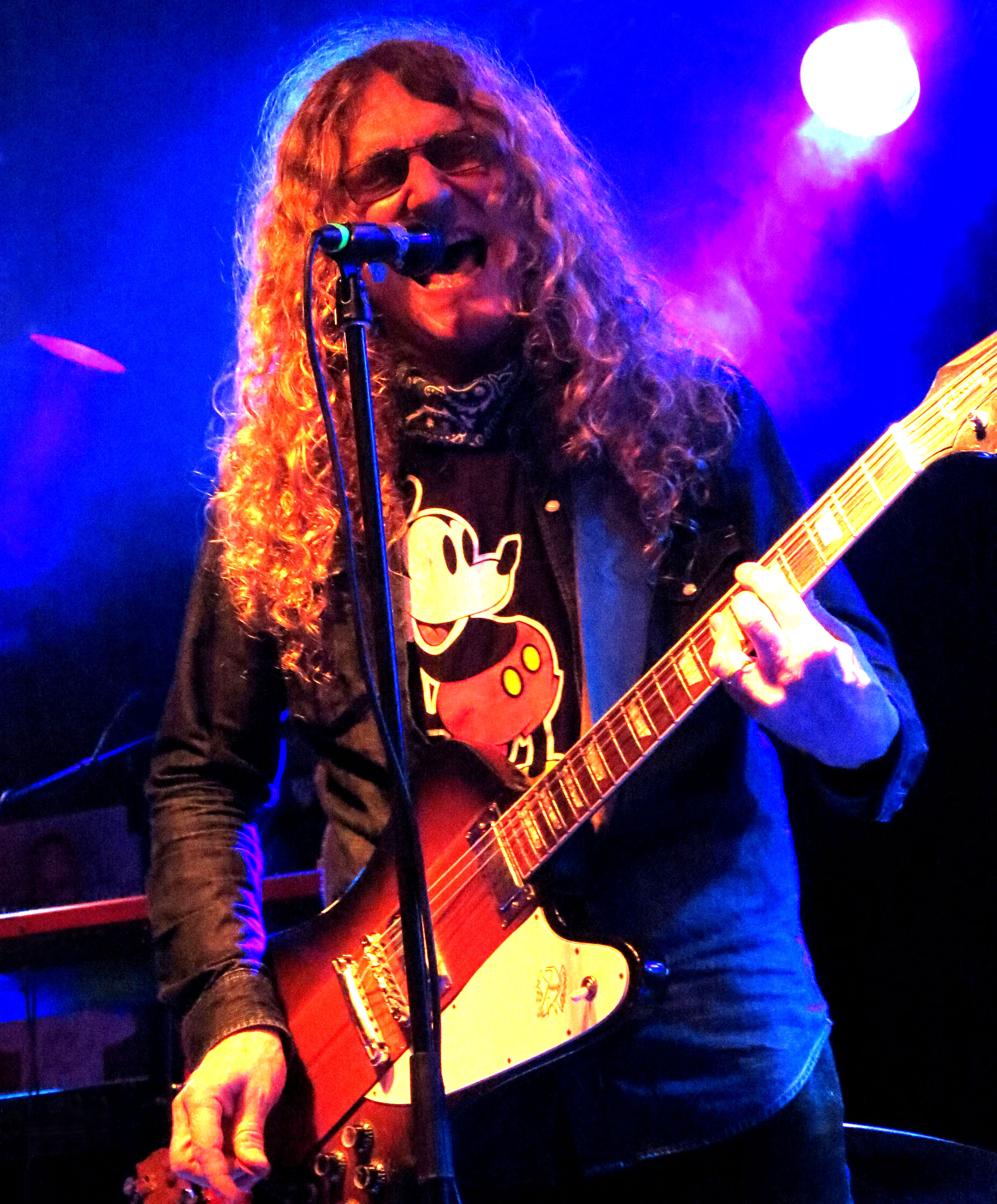 Finnish musician Mikä Järvinen on stage at On The Rocks, Helsinki, 2016.